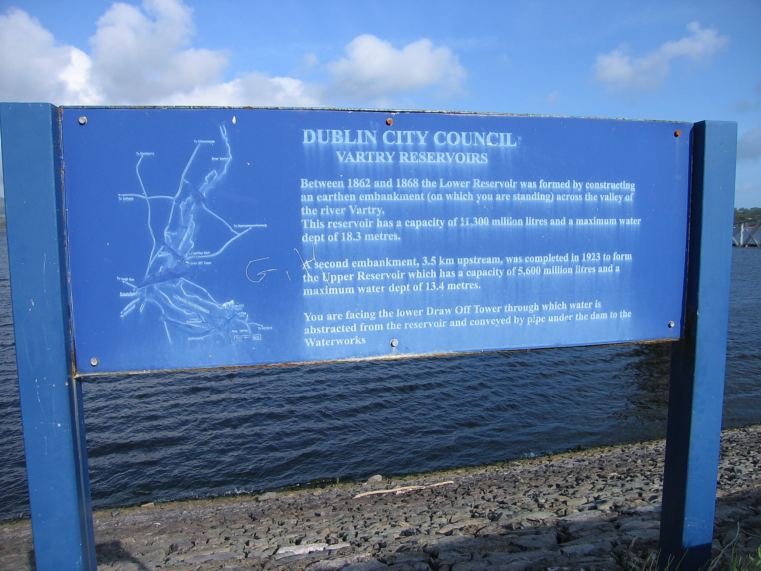 Info on Vartry